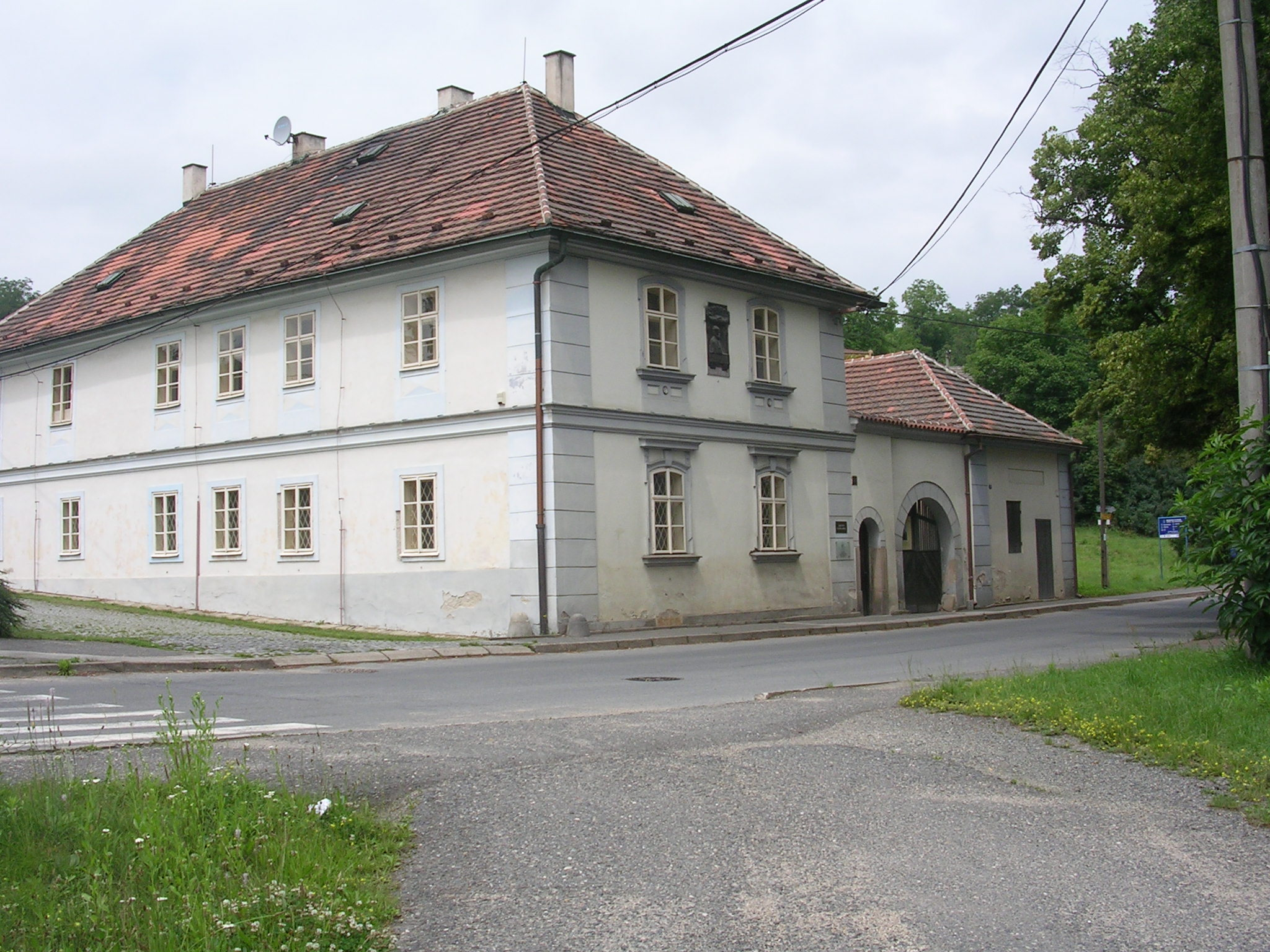 Nelahozeves, Mělník District, Central Bohemian Region, the Czech Republic. The birth house and museum of Antonín Dvořák.